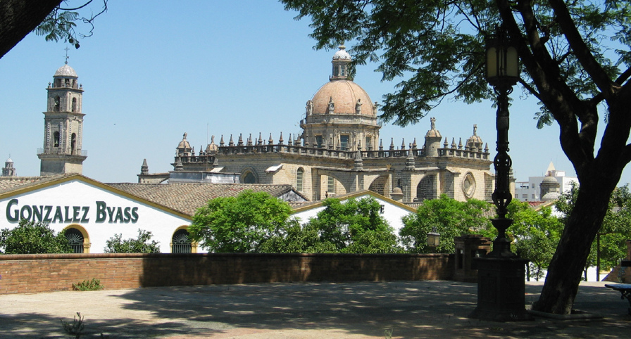 Cathetral in Jerez